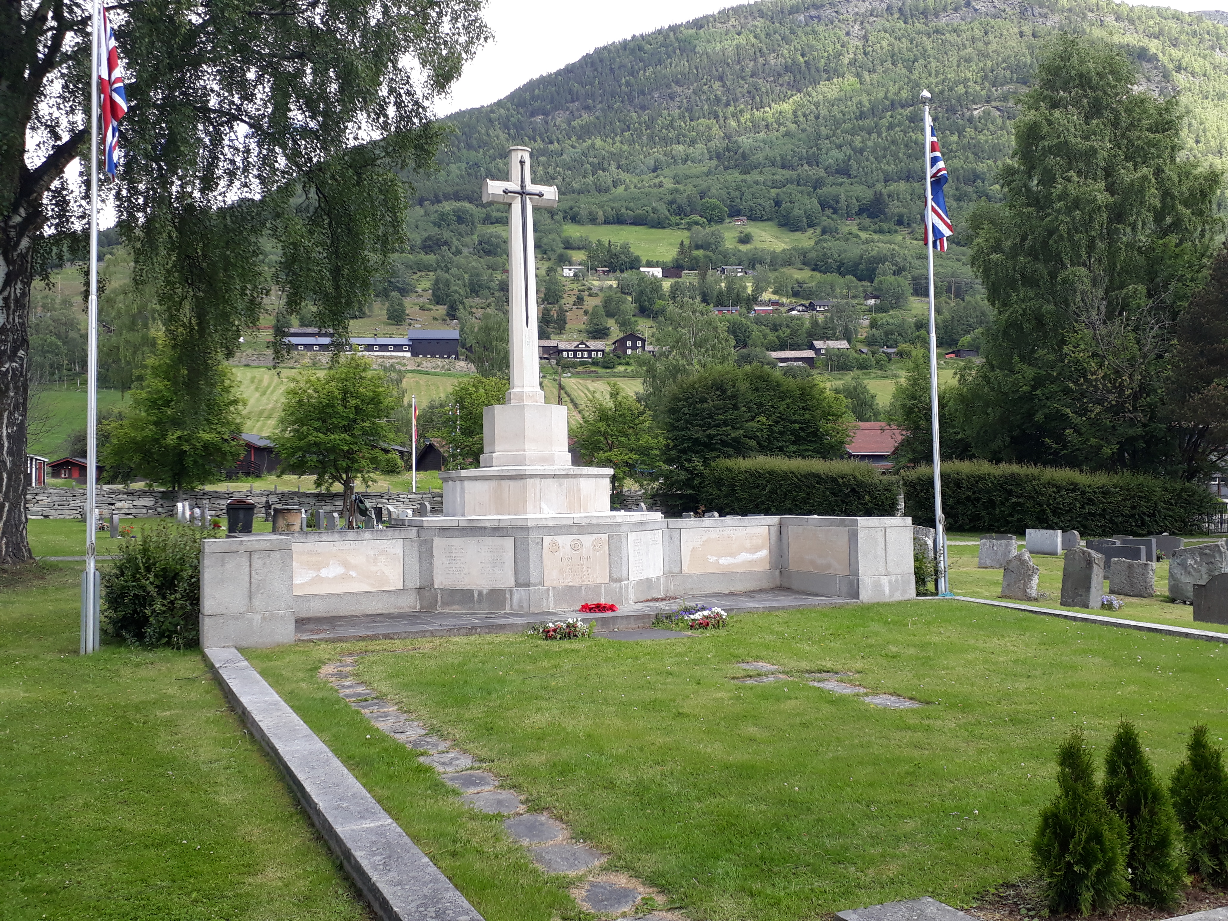 British war cemetery at Kvam